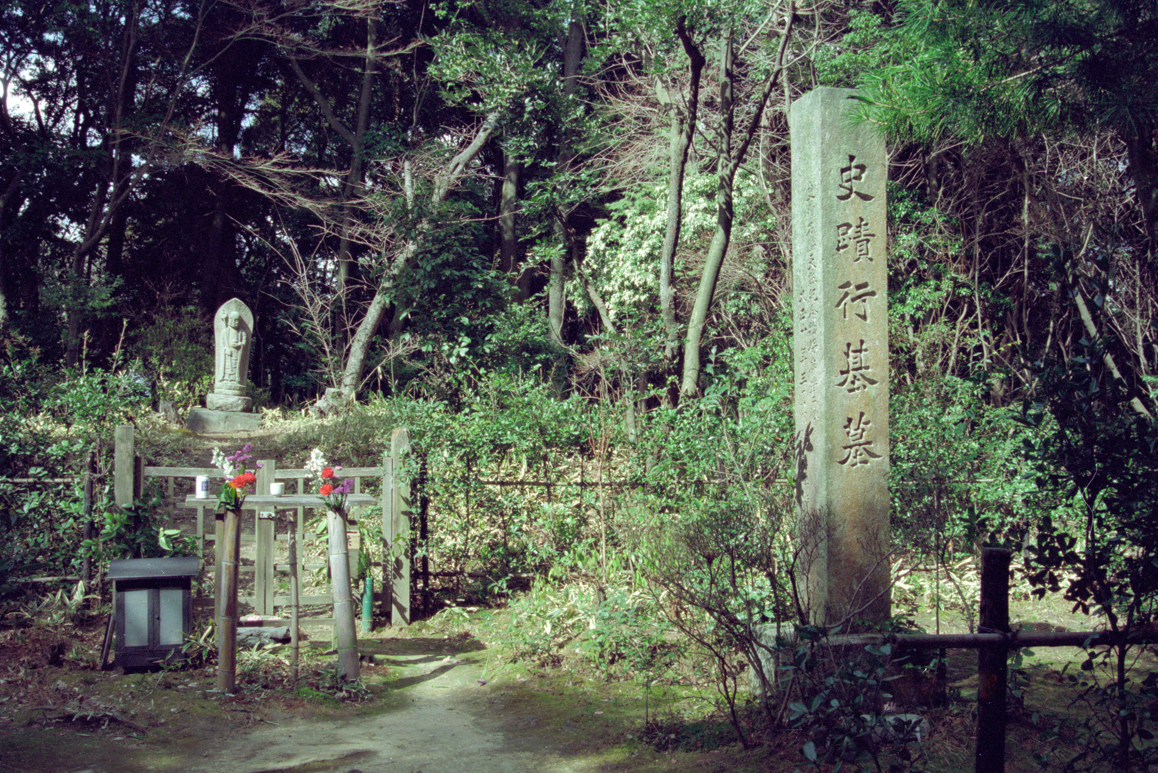 Tomb of Monk Gyoki, at Chikurin-ji, Ikoma, Japan